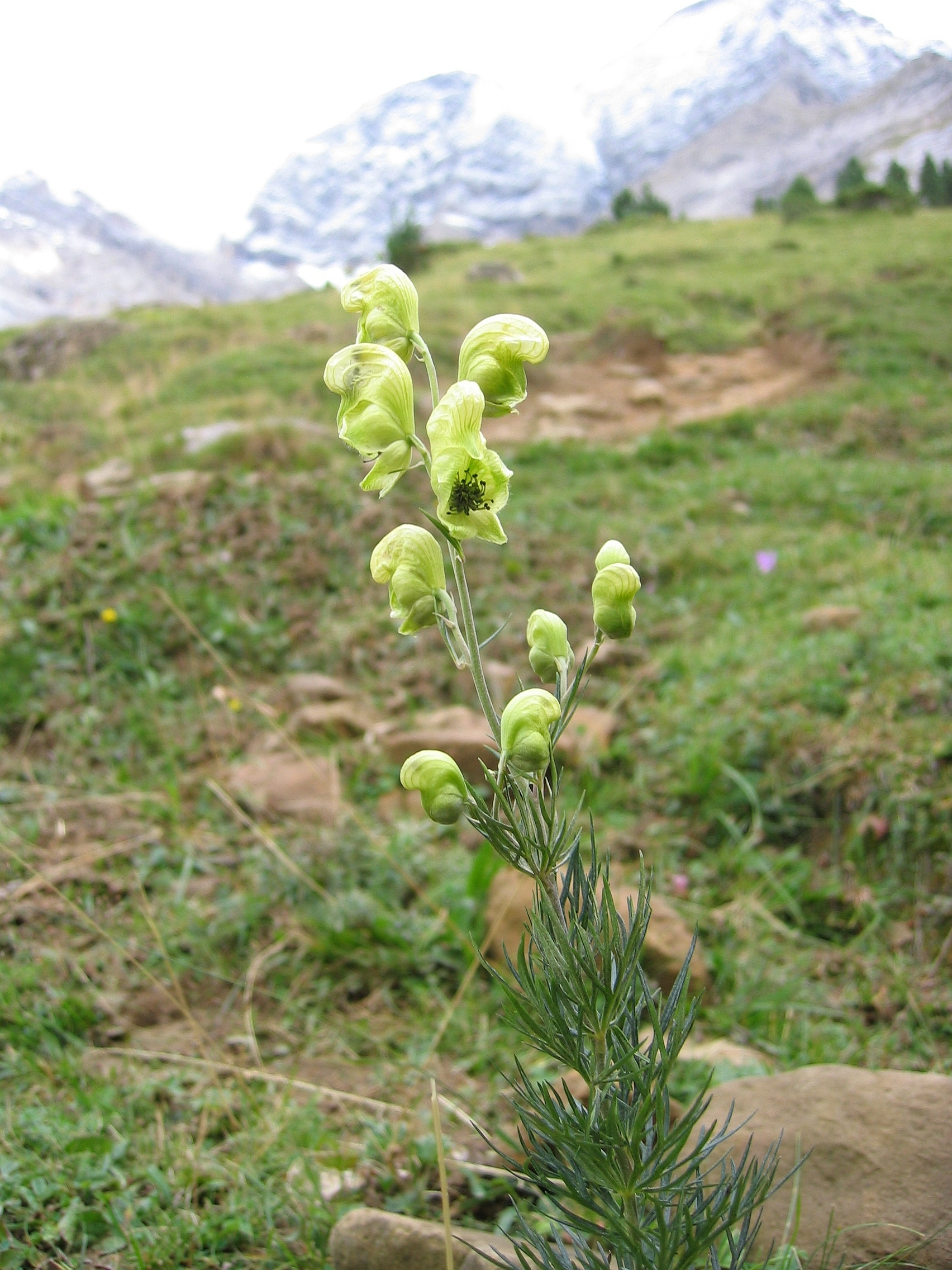 Aconitum anthora near Refuge des Espuguettes, Hautes-Pyrénées, France